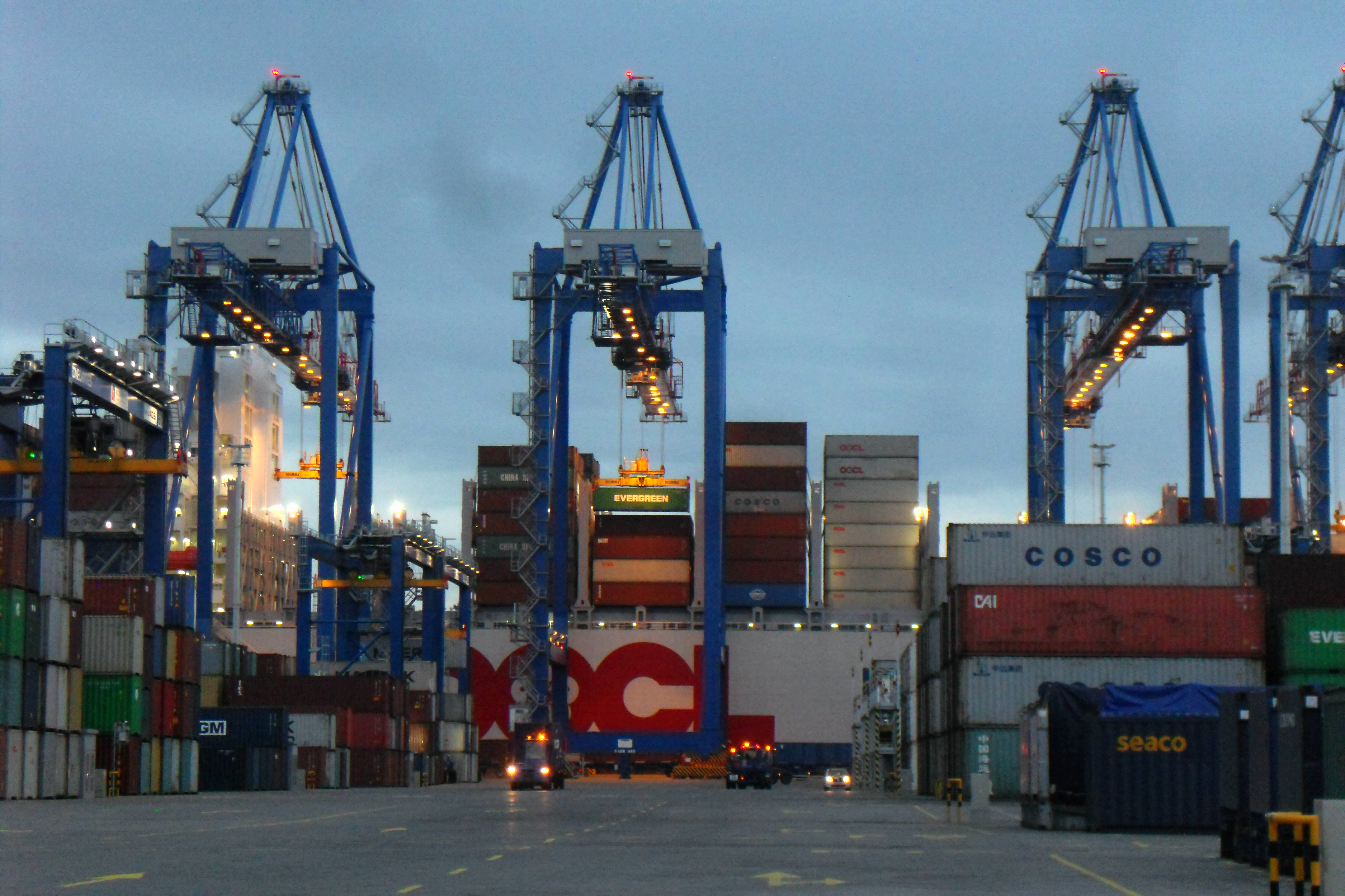 OOCL Hong Kong (the world's largest container ship) at the Deepwater Container Terminal (T2) Gdańsk (Poland).